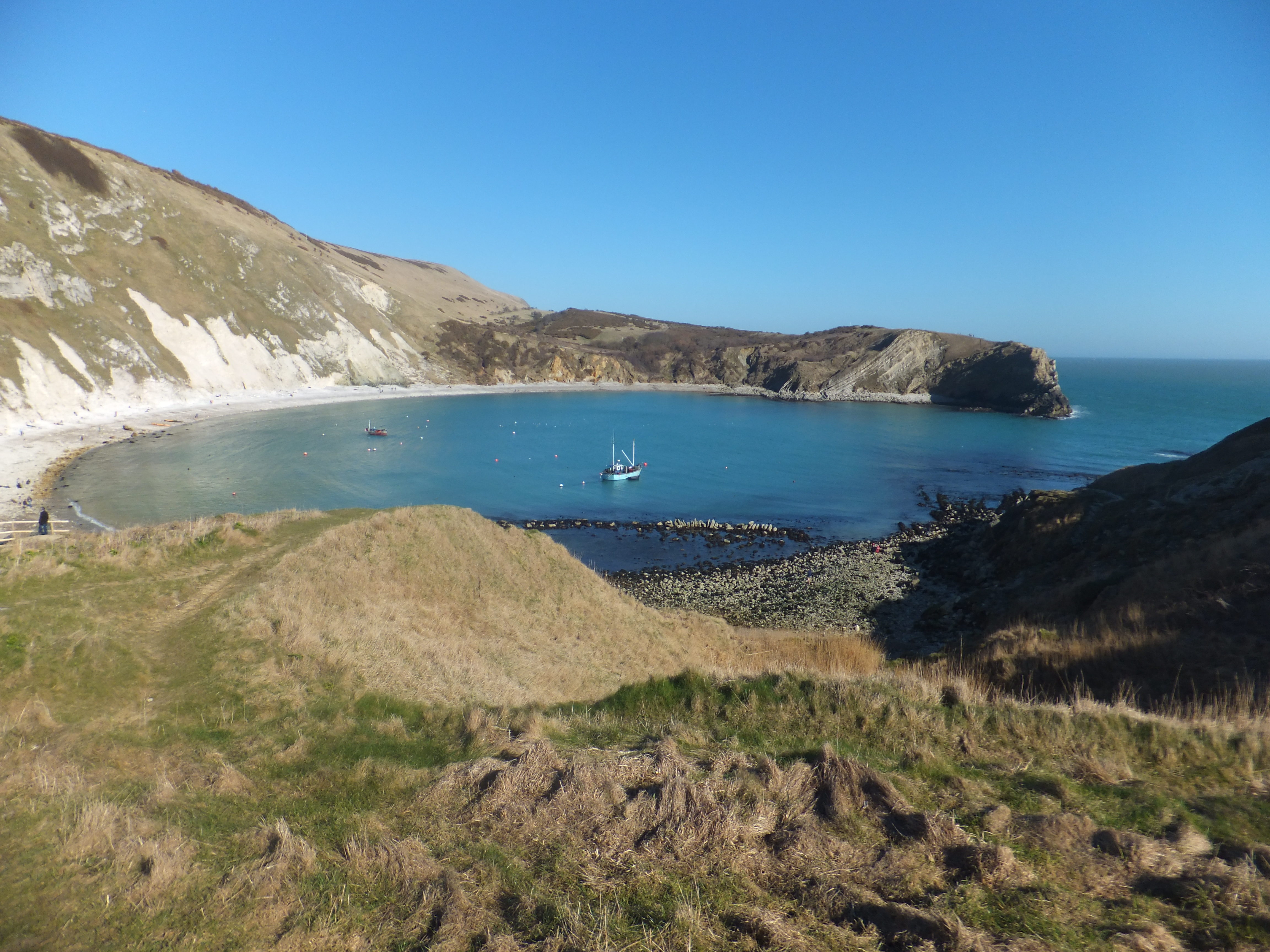 All of the cove